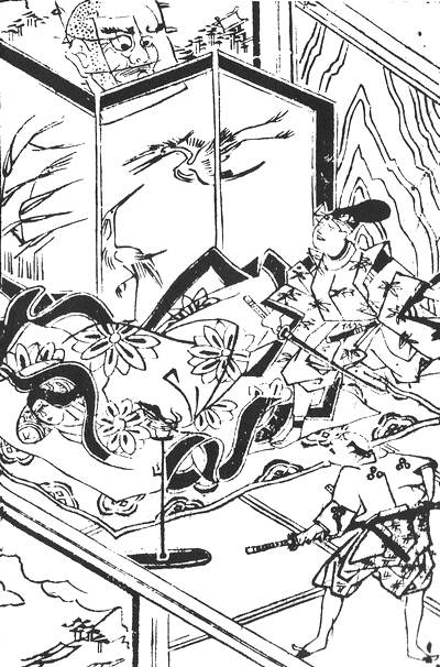 "Monster monk in Ogasawara's house" from the Shokoku Hyakumonogatari